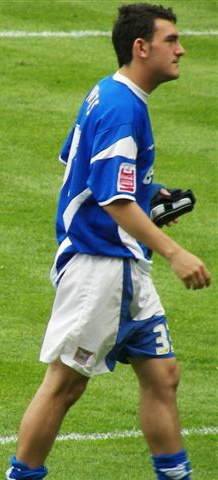 Gary Roberts. Image cropped from original at flickr.